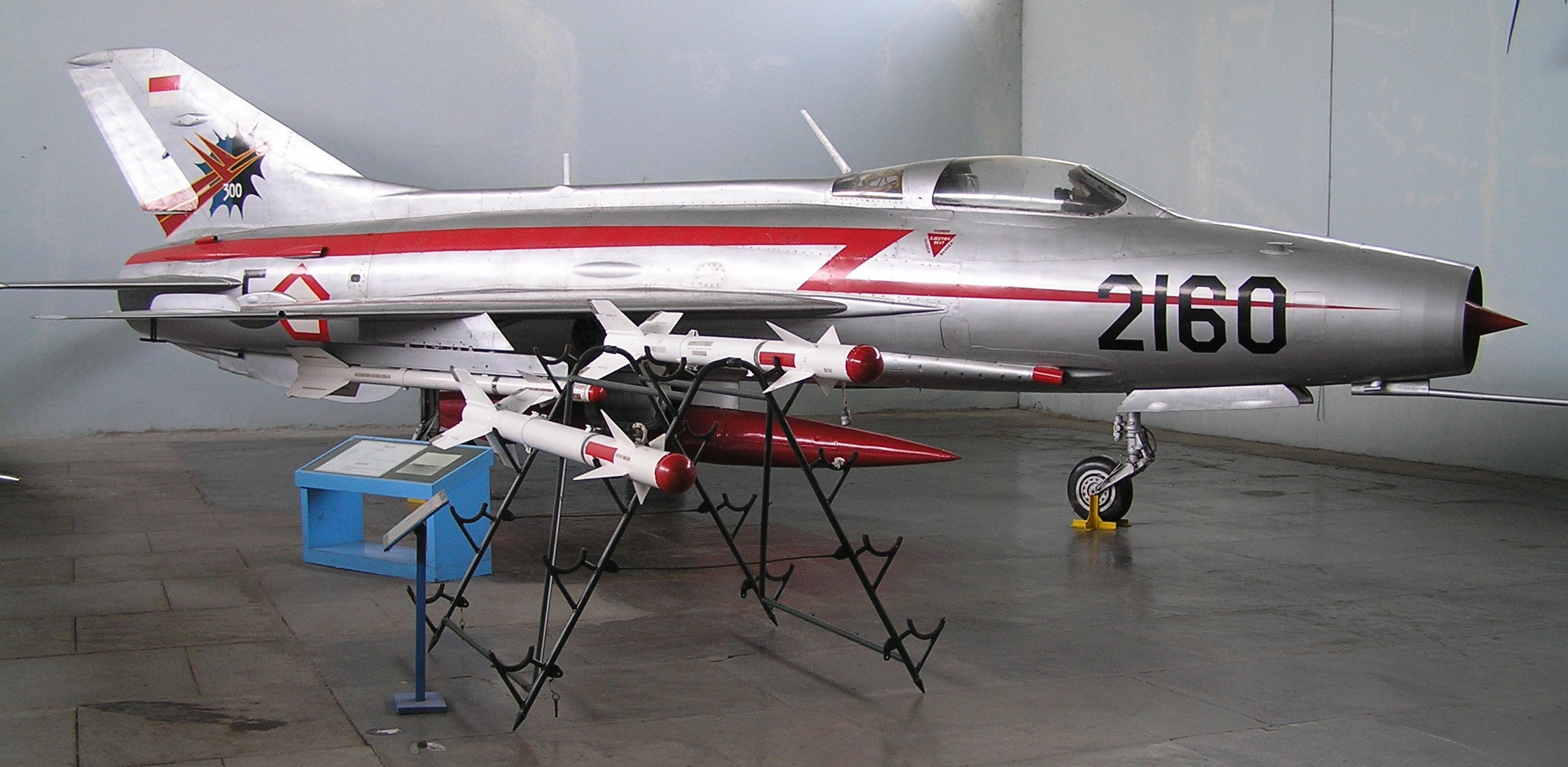 Indonesian Air Force MiG-21 in the Air Force Museum